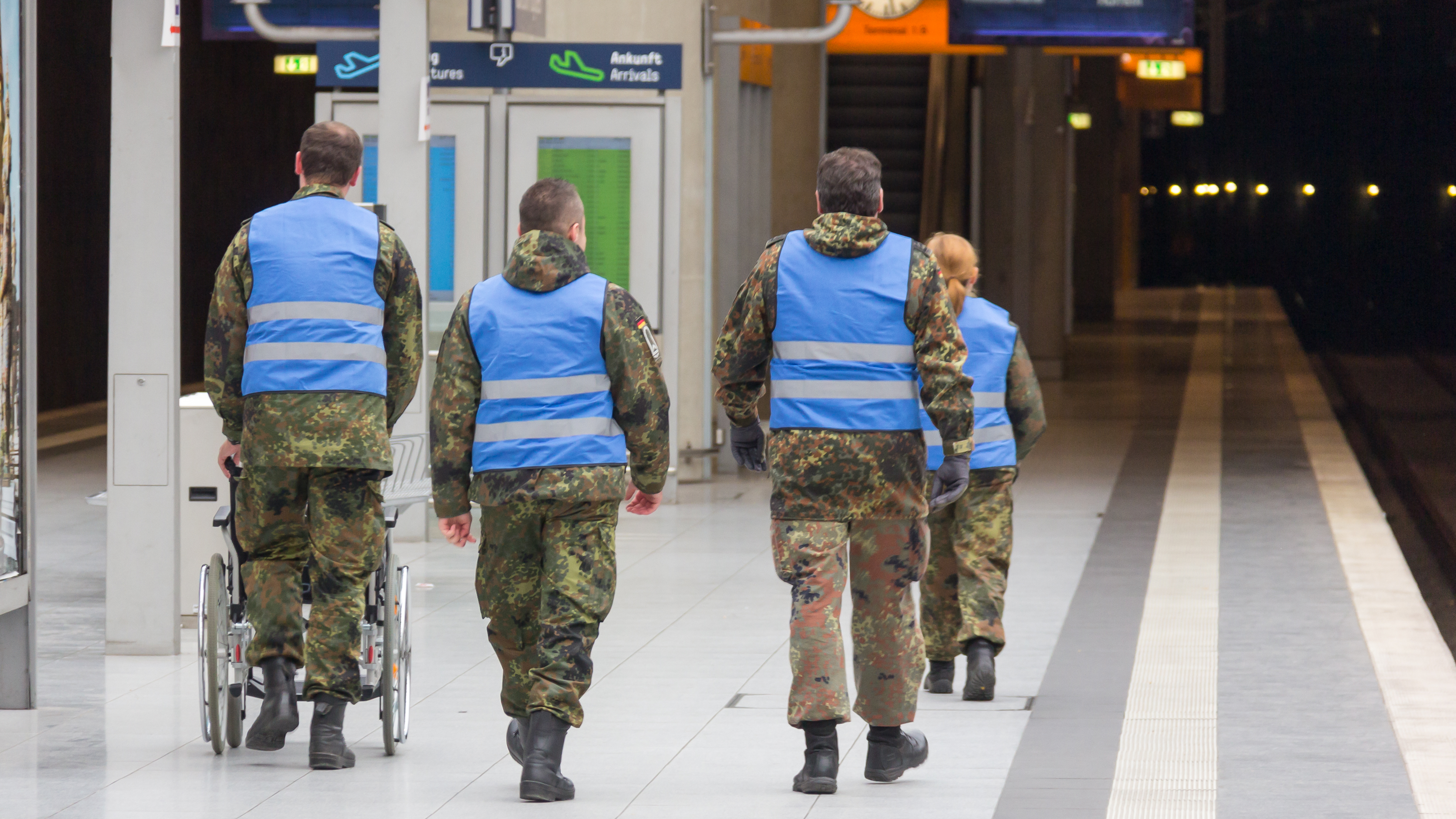 Arrival of refugees with a special train by Deutsche Bahn from the Austrian/German border at the station of Cologe/Bonn airport. In big tents on the ground the refugees can rest and eat, get new clothes and they can charge their smartphones. Medical assistance is available too. After ~ 2 hours the refugess will be transported by busses to buildings of the country of North Rhine-Westphalia